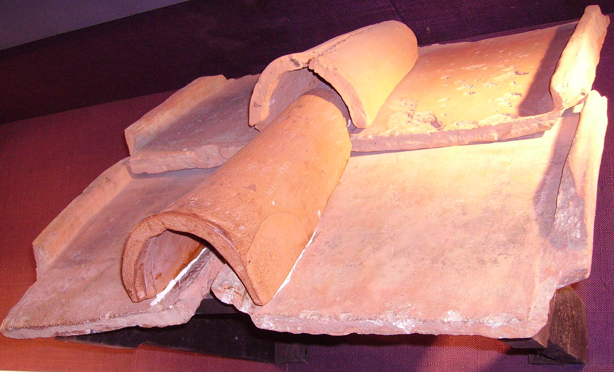 An example of Imbrex and tegula roofing at Fishbourne Roman Palace in West Sussex, United Kingdom